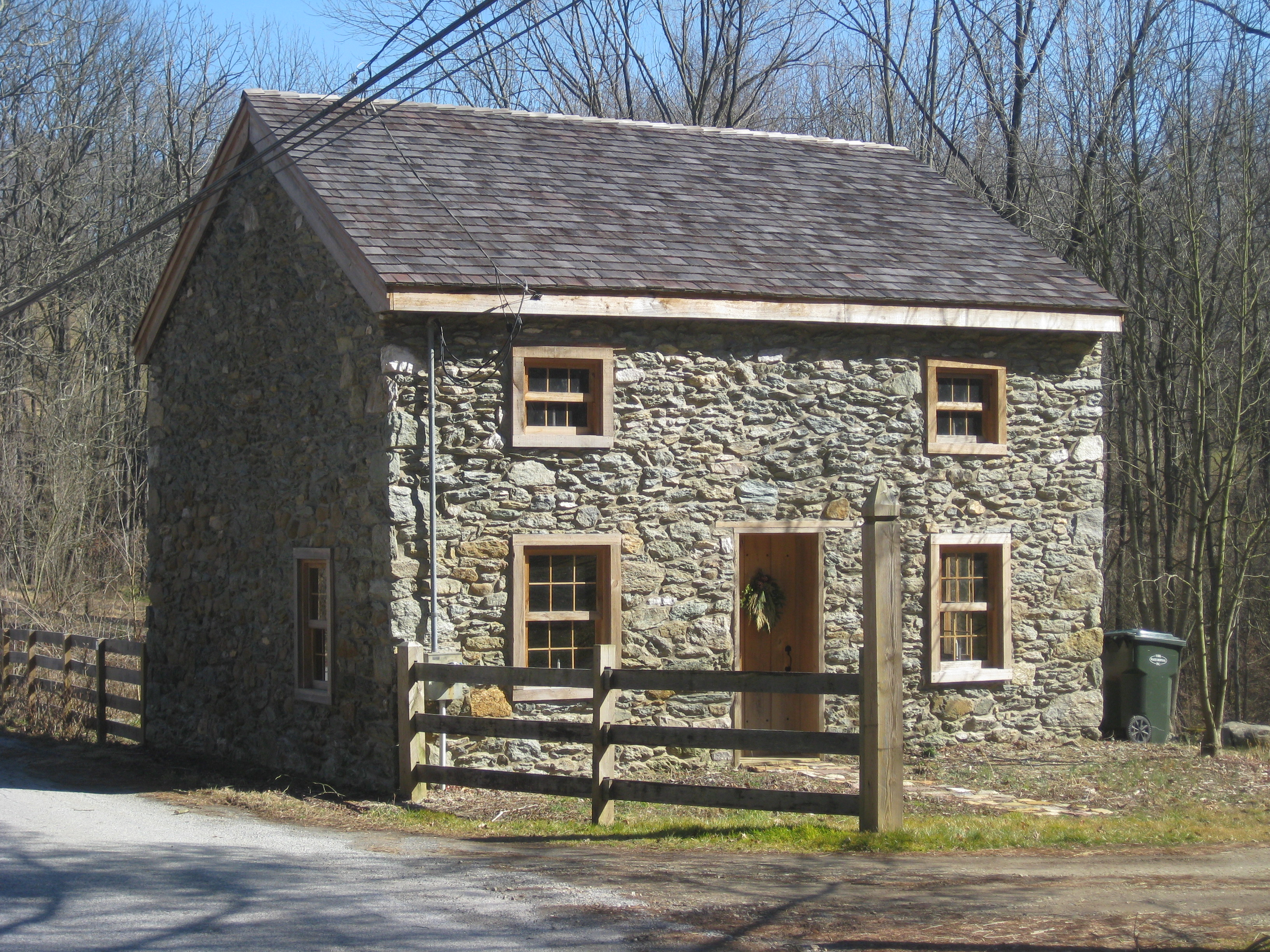 National Register of Historic Places Steen, Robert, House (added 1985 - - #85001155) Chester County - Fairview Rd., East Fallowfield Township , Coatesville (9 acres, 1 building) Historic Significance: Event Area of Significance: Social History Period of Significance: 1850-1874, 1825-1849